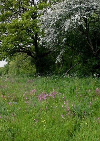 Edge of a wood near Malling, Jutland